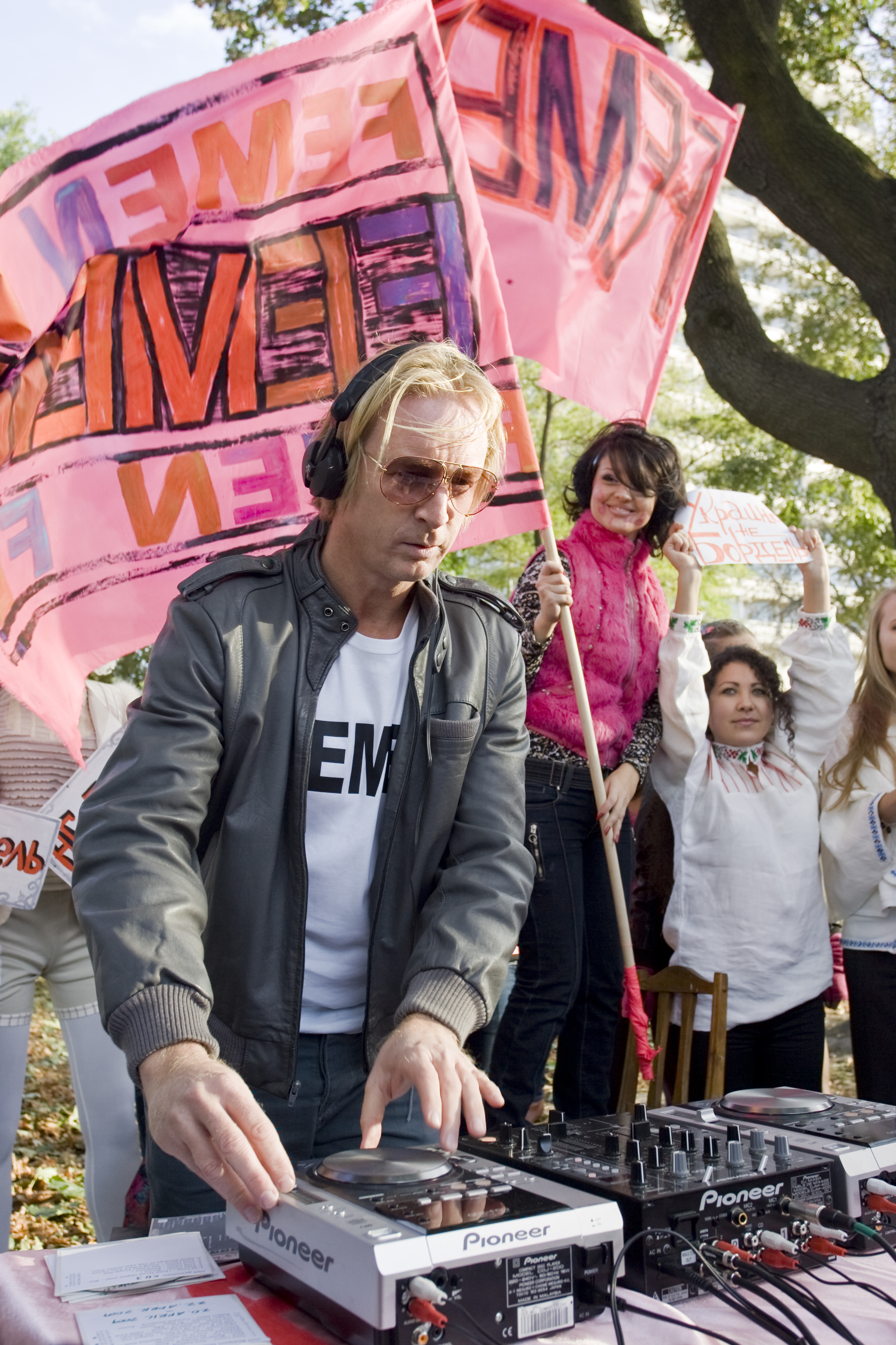 2 October 2010 DJ HELL performs at Techno-Riot FEMEN Protest at the Ukrainian Parliament against sex-tourism and prostitution.